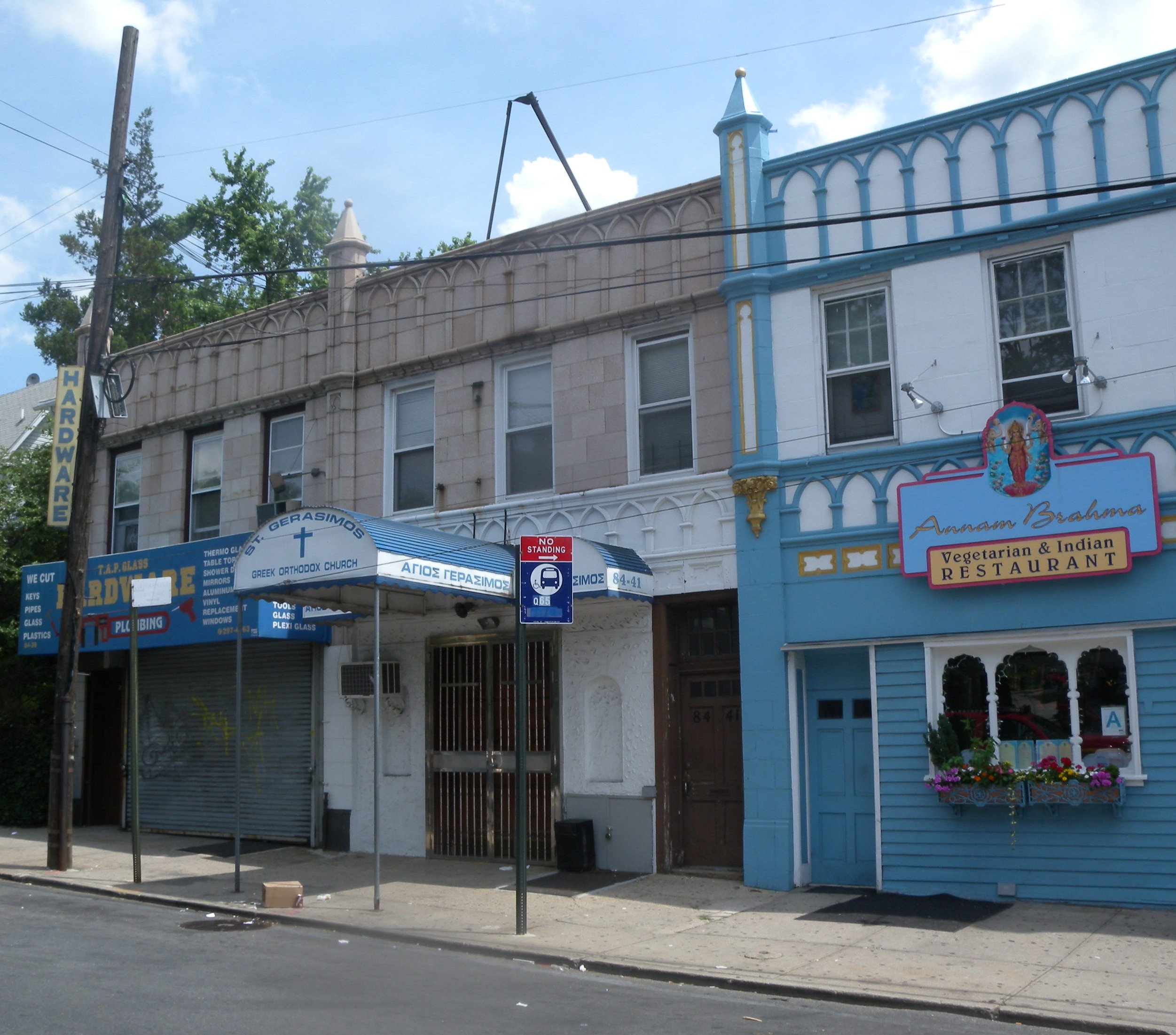 Looking northeast across 164th Street at the St Gerasimos Church on a sunny midday.